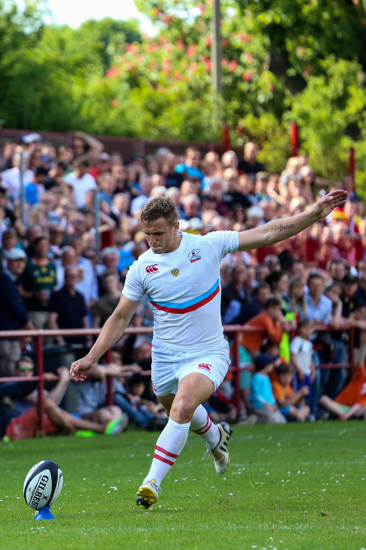 Yury Kushnarëv of Russia kicking a conversion in the 5th-round of the European qualifying to the 2015 Rugby World Cup Qualification against Germany in Hamburg, 24th May 2014